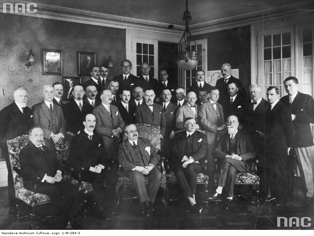 The international economic conference in Geneva on the issue of freedom of trade, streamline and cartelization, organized under the auspices of the League of Nations. The Polish delegation to the conference. May 1927 AD